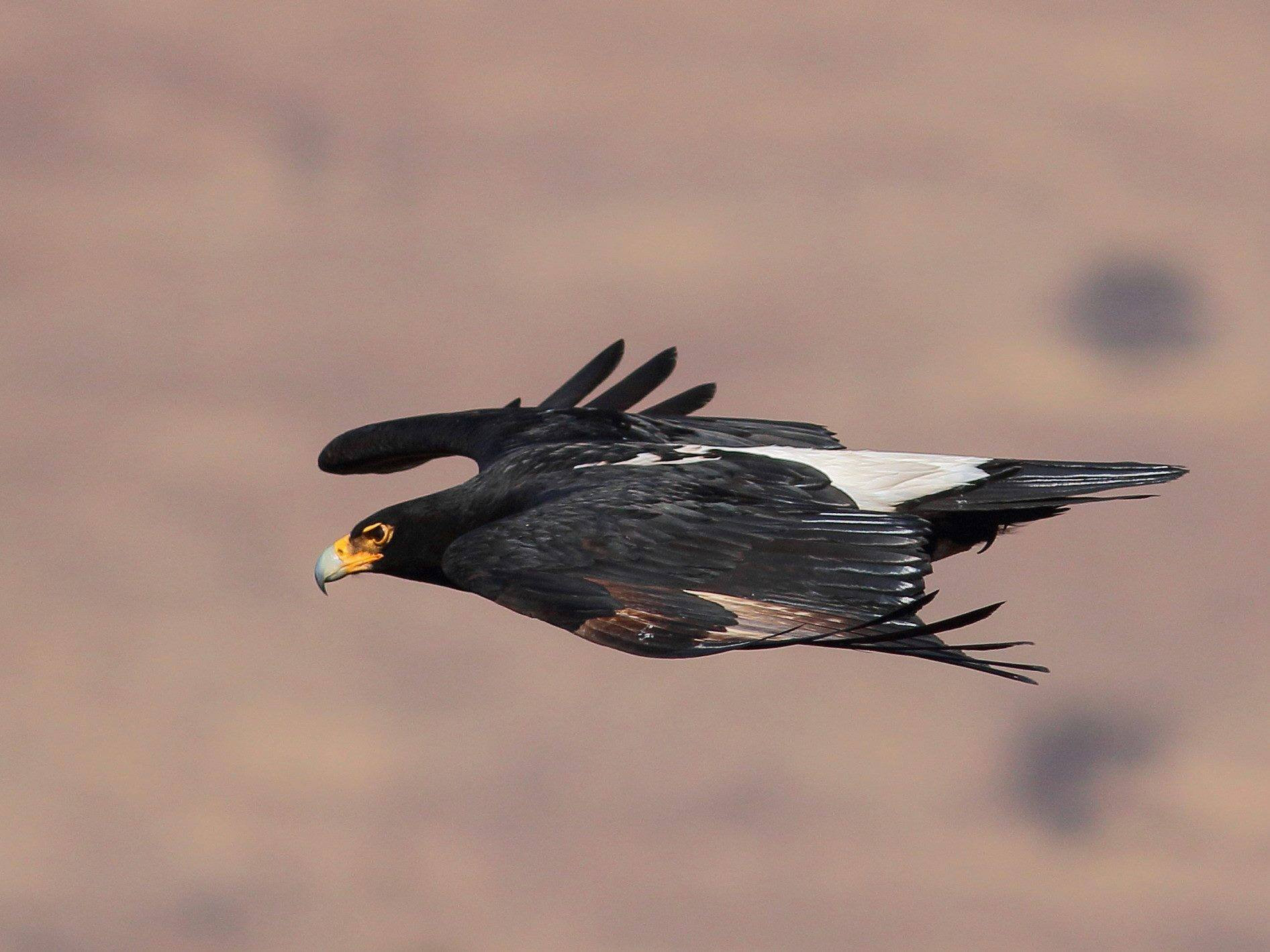 Aquila verreauxii - Nooitgedacht, Hekpoort, Transvaal, South Africa